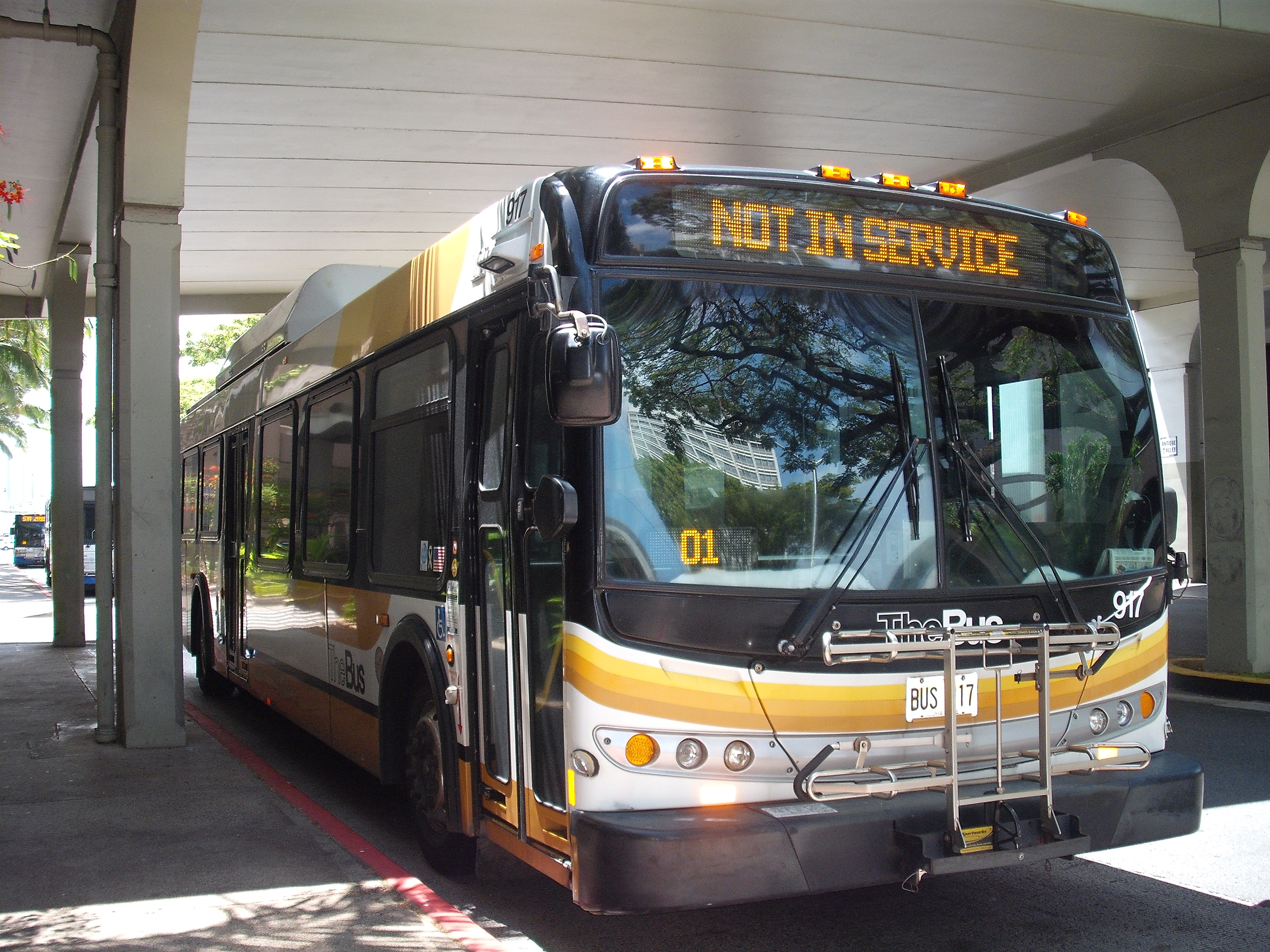 A New Flyer 2006 DE40LFR Hybrid Not in service parked by the Ala Moana Center.